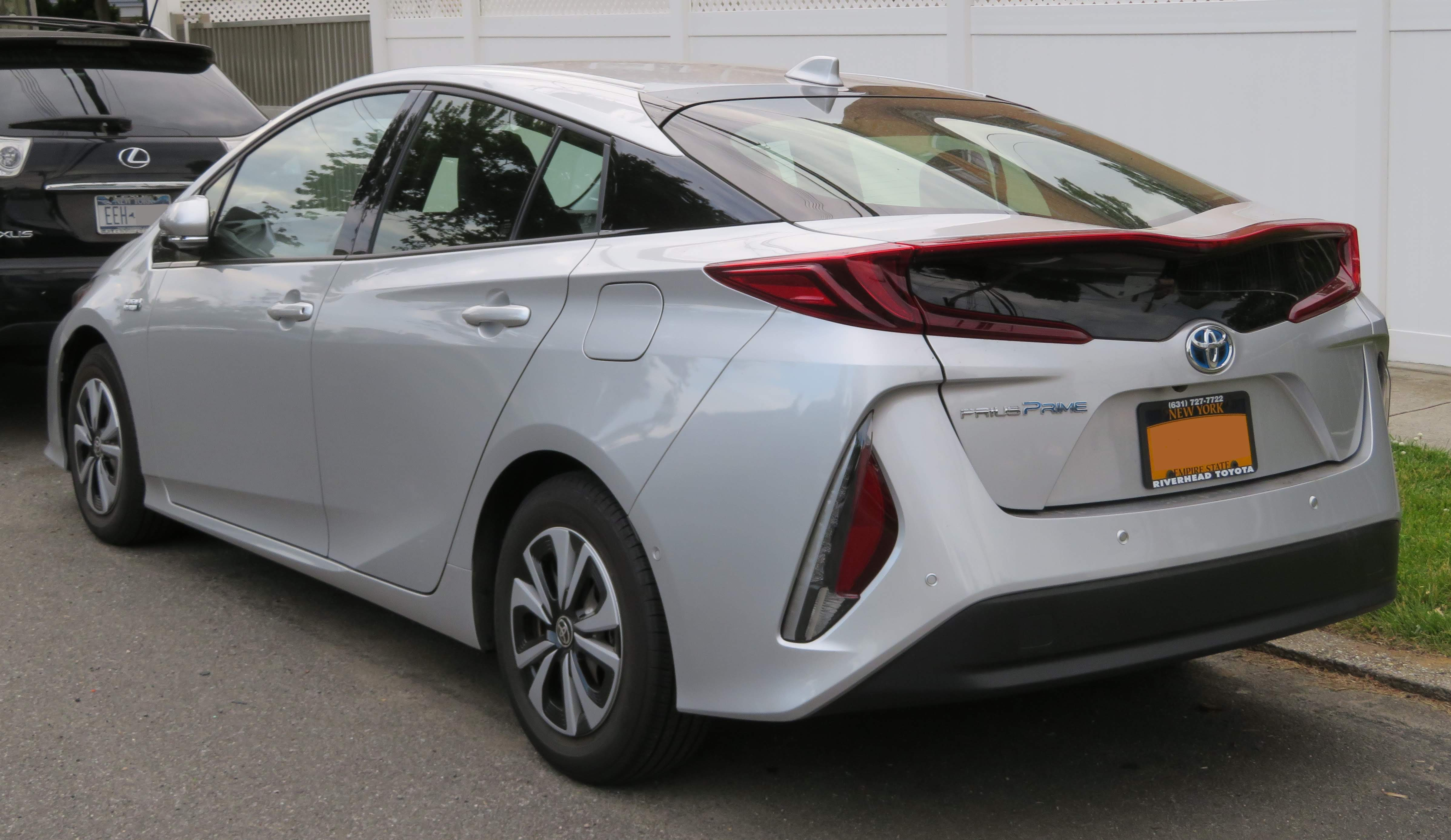 Photographed in Queens, New York